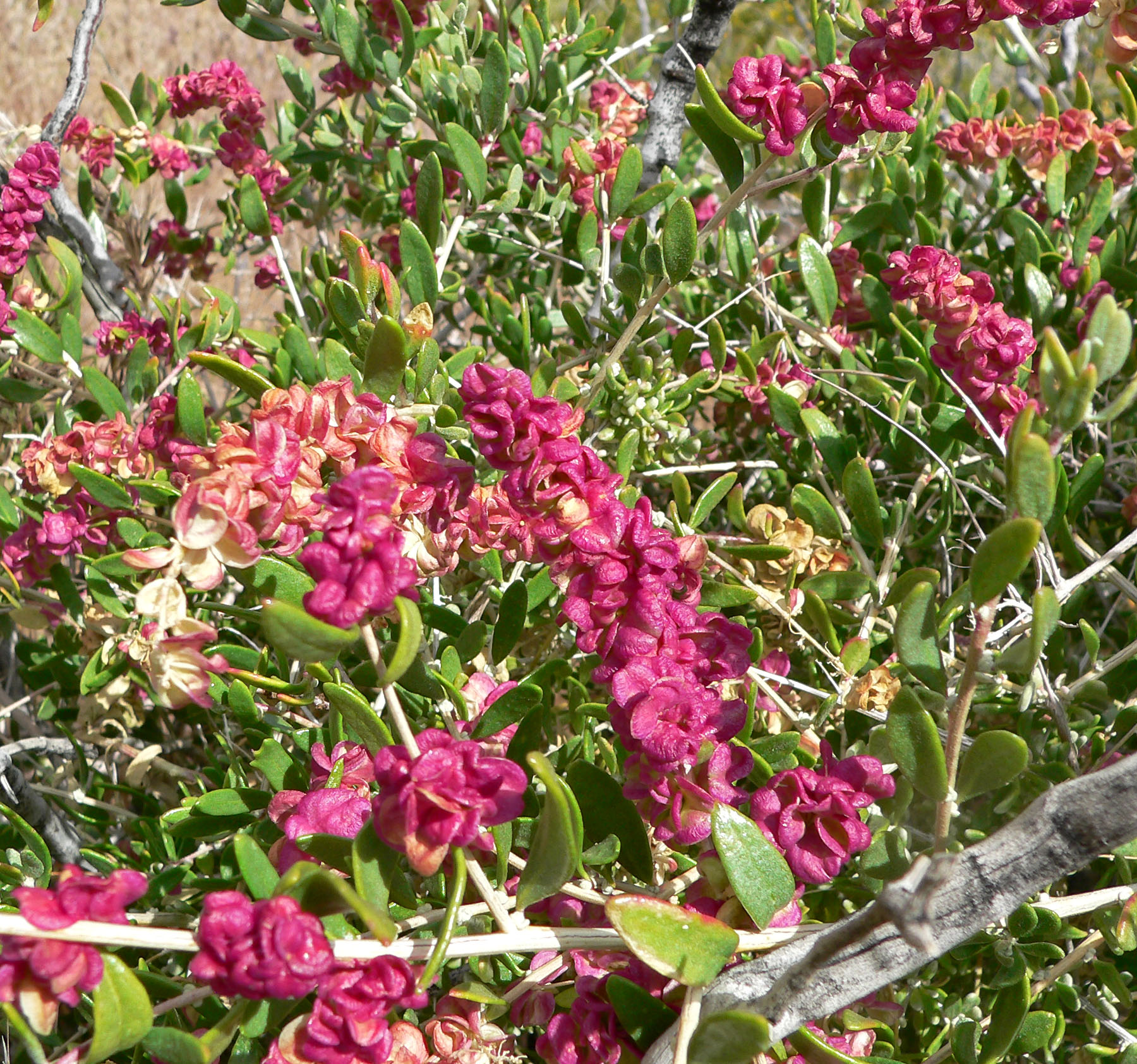 Photo of Grayia spinosa (hopsage) on hillside west of Las Vegas, Nevada, just outside Red Rock Canyon